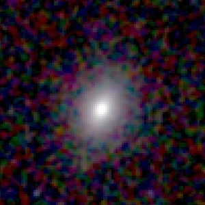 Galaxy NGC 430